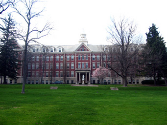 Barat College Old Main Spring 2005